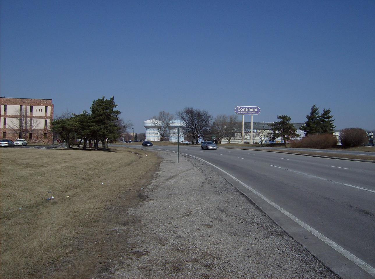 Looking north on State Route 710 from the Shapter Avenue intersection in Columbus, Ohio, United States.